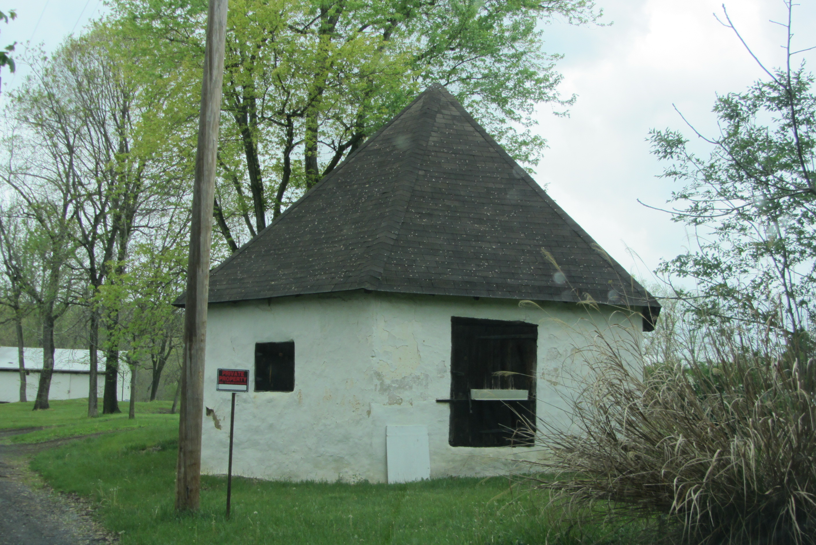 Old Forge Farm building, Middle Rd., Middletown, Frederick County, Virginia, USA